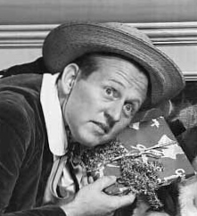 Art Linkletter in a promotional photo for a Christmas edition of People Are Funny around 1957